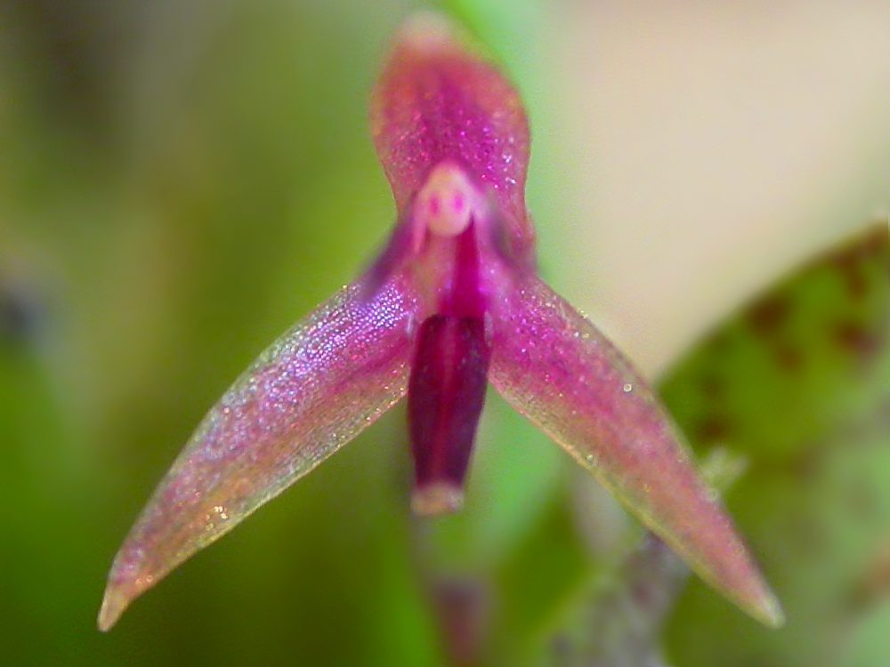 Anathallis